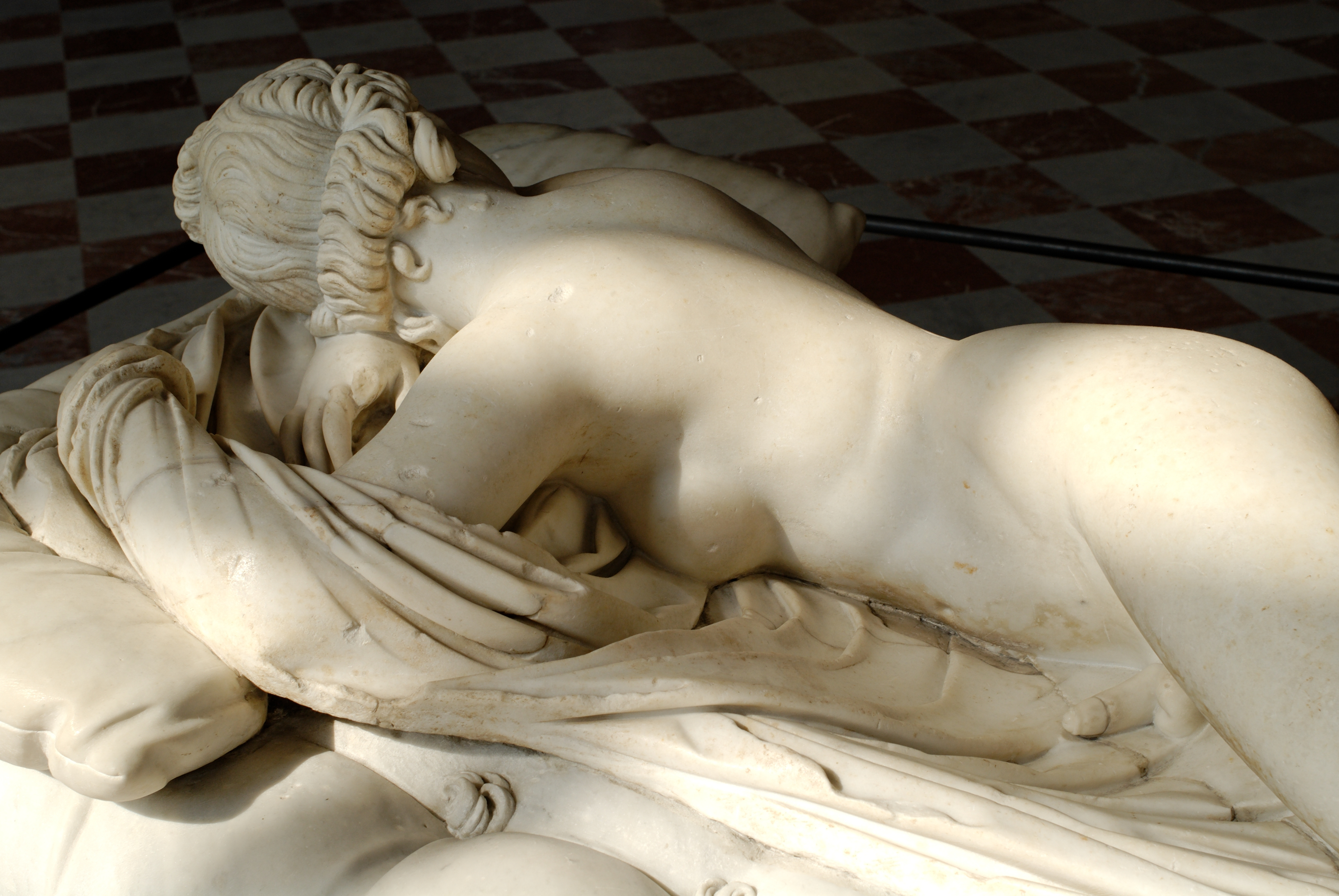 Sleeping Hermaphroditus. Hermaphroditus: Greek marble, Roman copy of the 2nd century CE after a Hellenistic original of the 2nd century BC, restored in 1619 by David Larique; mattress: Carrara marble, made by Gianlorenzo Bernini in 1619 on Cardinal Borghese's request.